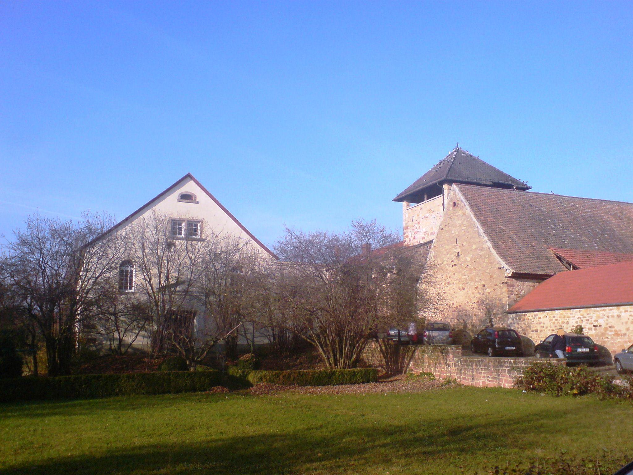 Mennonite churche Friedelsheim, Rhineland-Palatinate, Germany